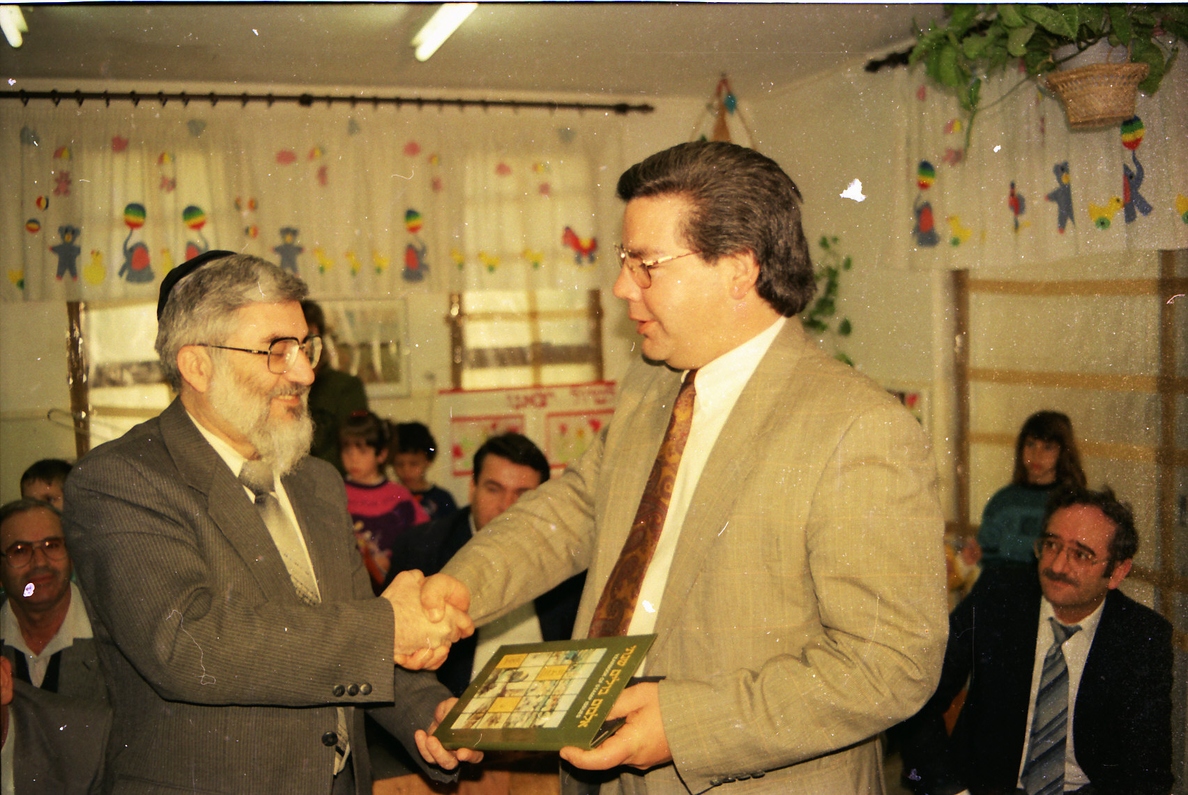 People of Israel